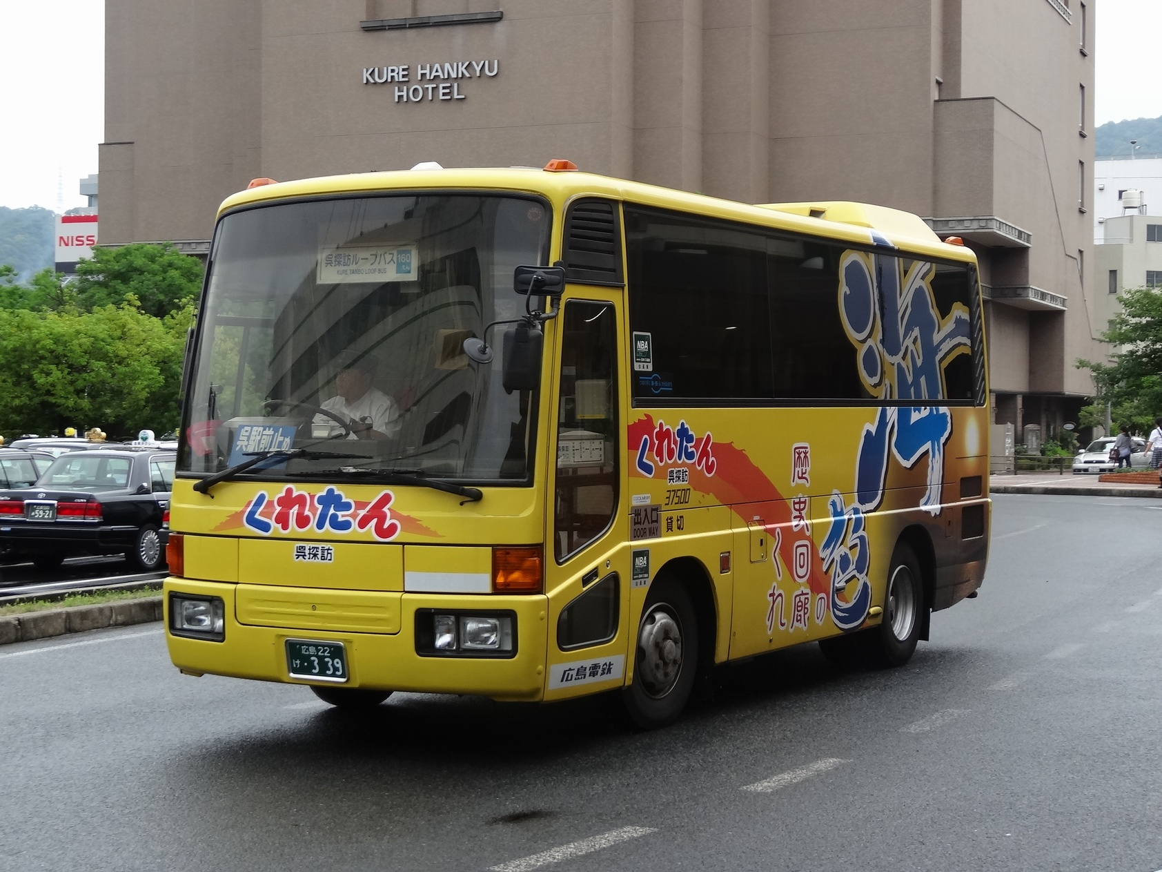 Hiroden Bus - Kure Tanbo Loop Bus